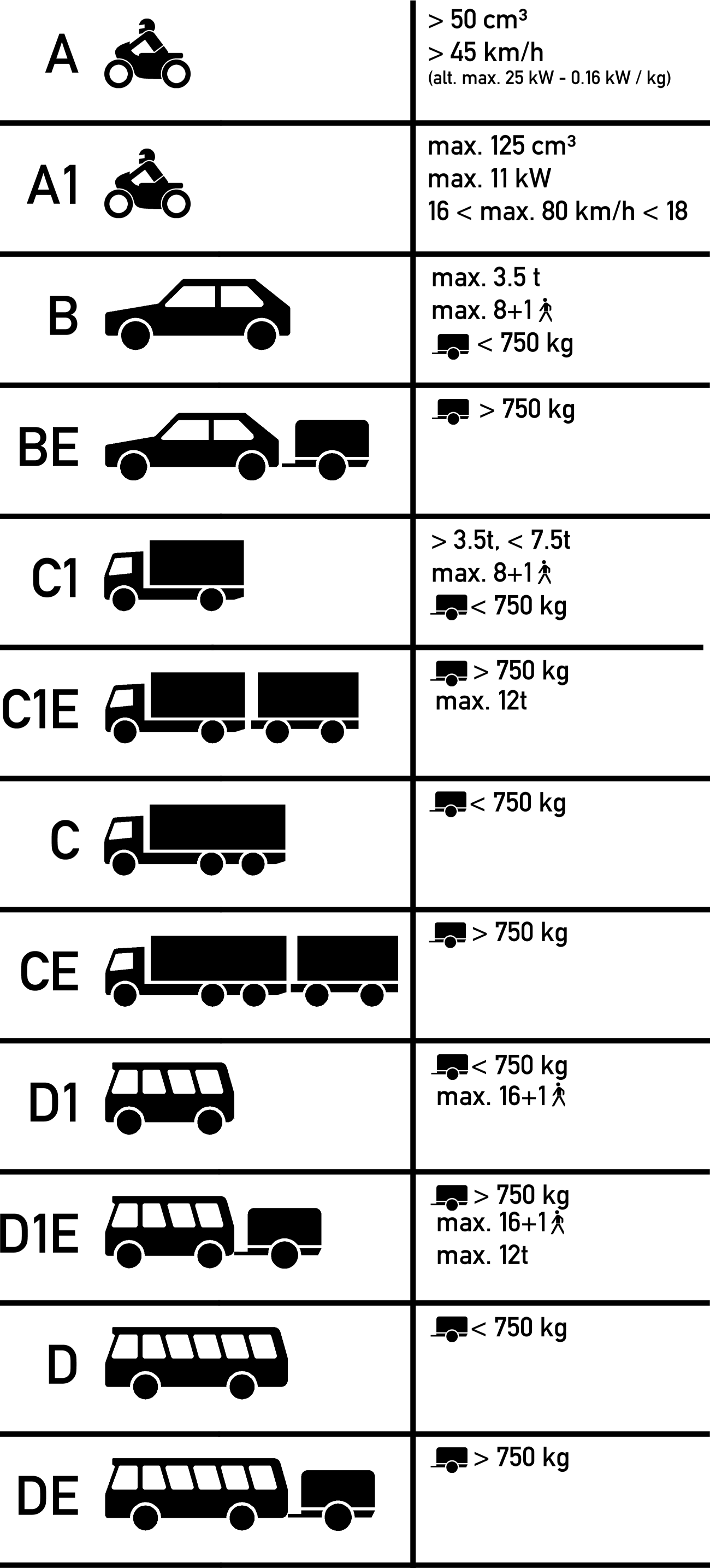 Various European driver's licence classes